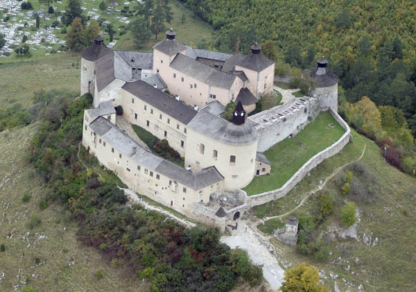 Krásna Hôrka, castle, Slovakia, aerial photography